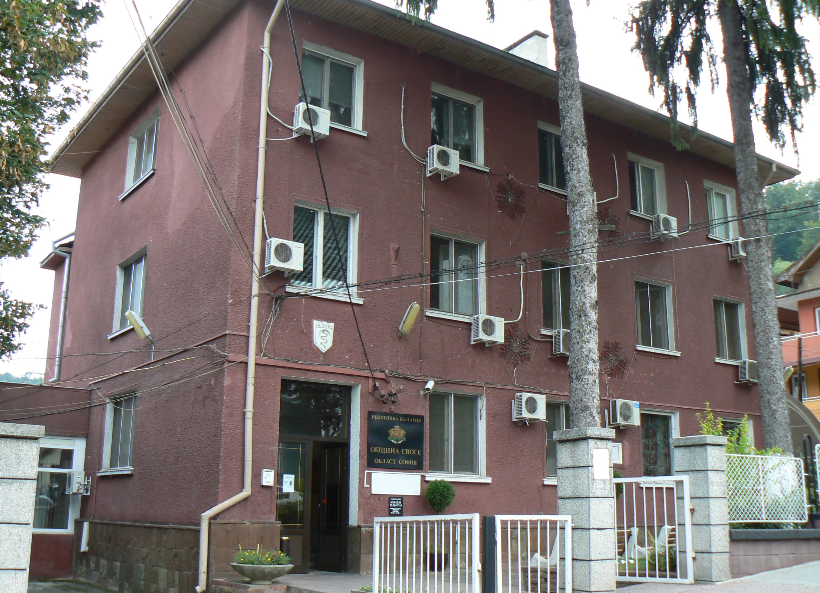 The building of Svoge Municipality, Bulgaria